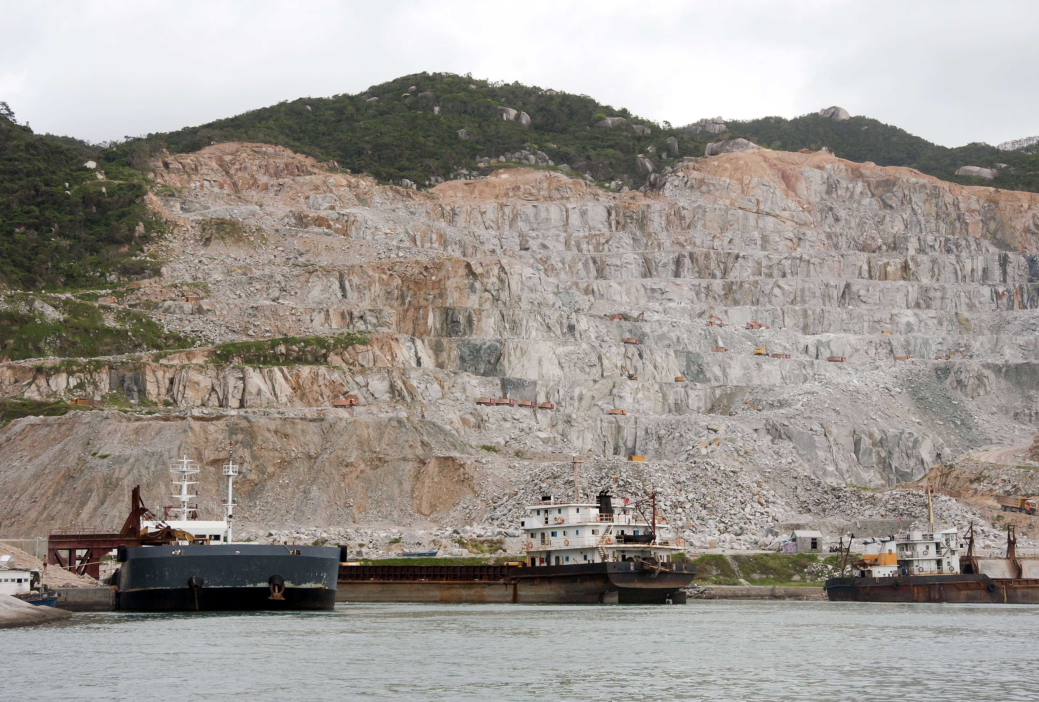 A Quarry at Tielugang near Sanya, China.